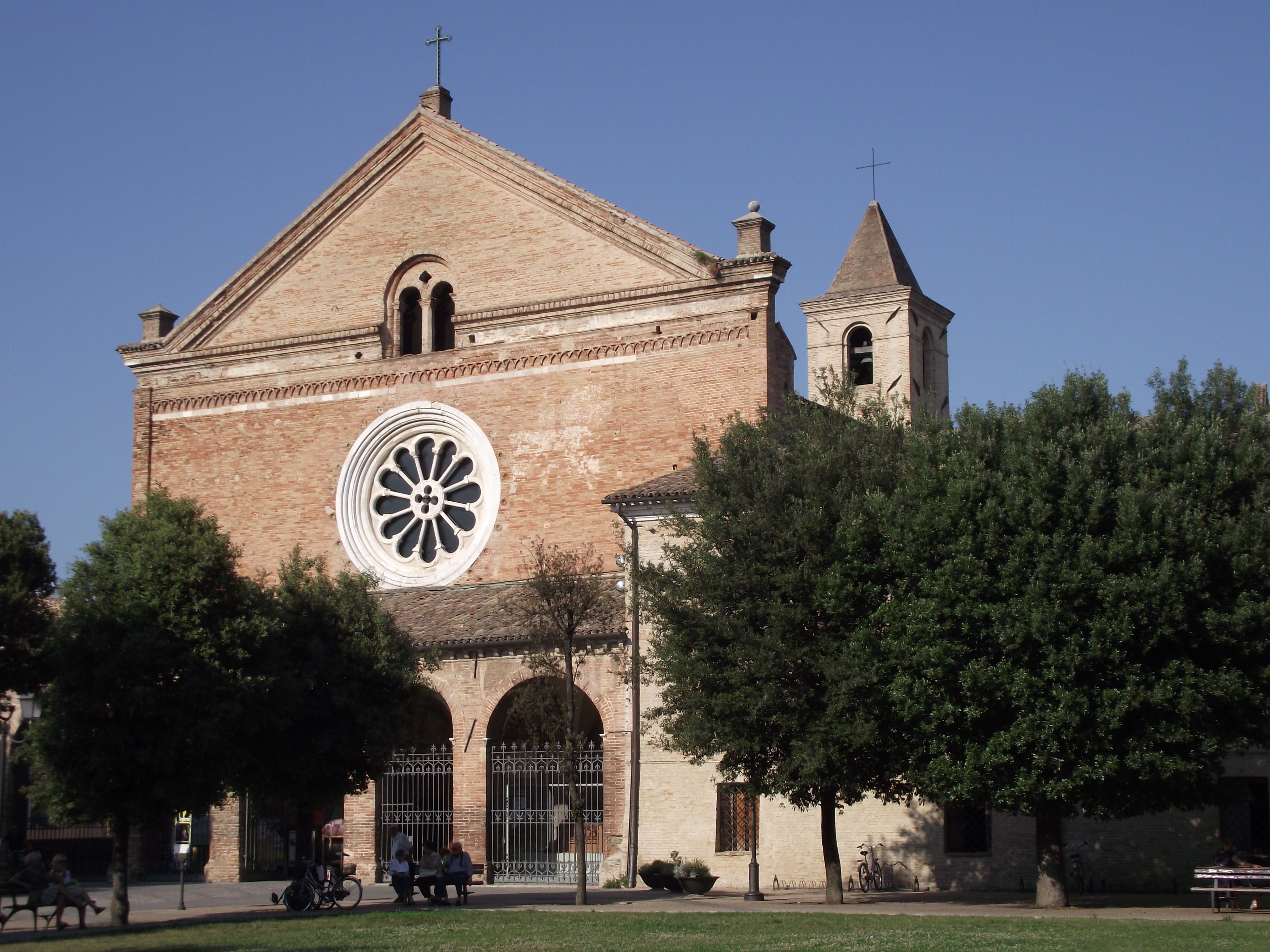 St. Mary's cistercian Abbey, XII century, Chiaravalle - Italy